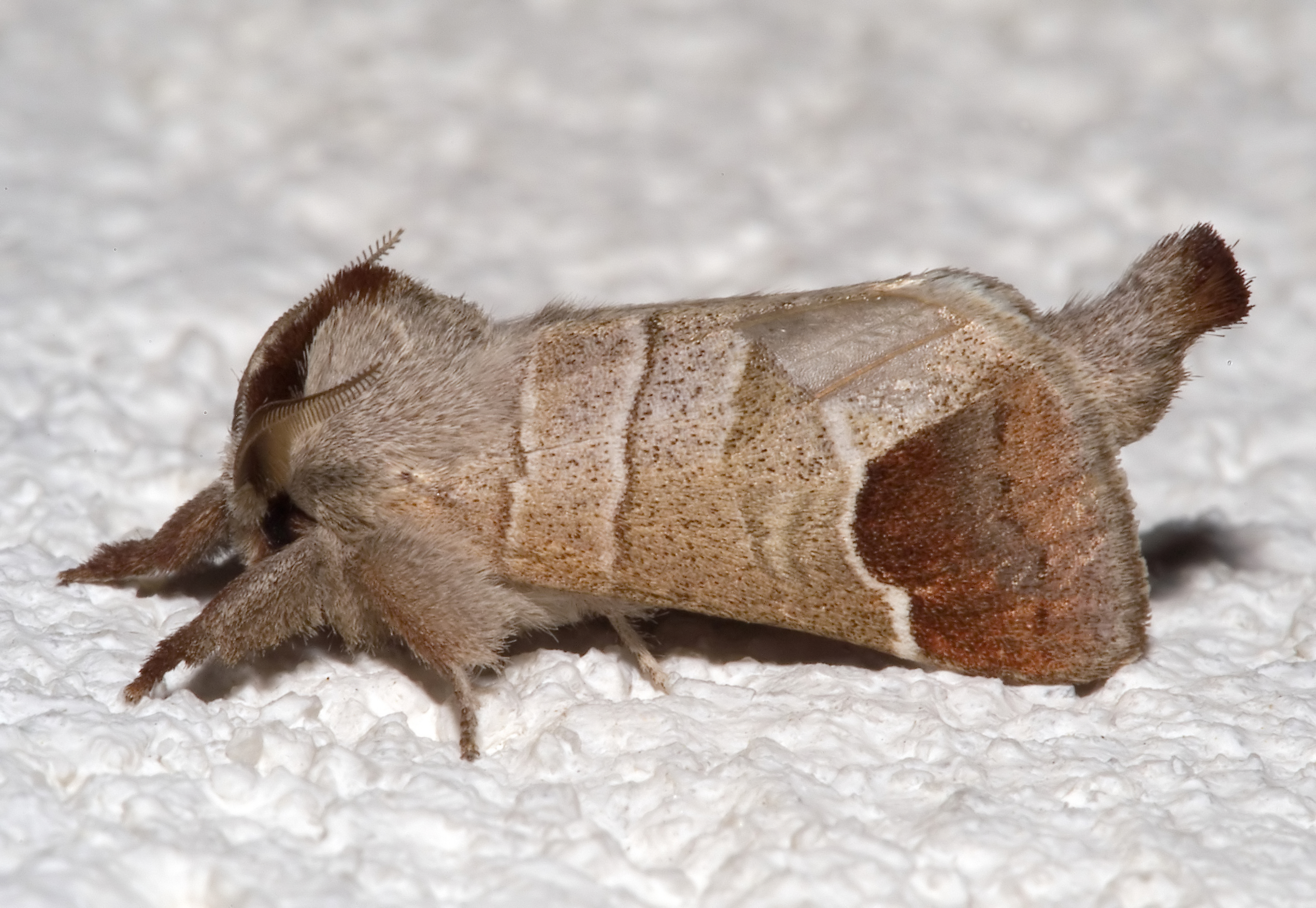 Please report references to kulacgmx.at.